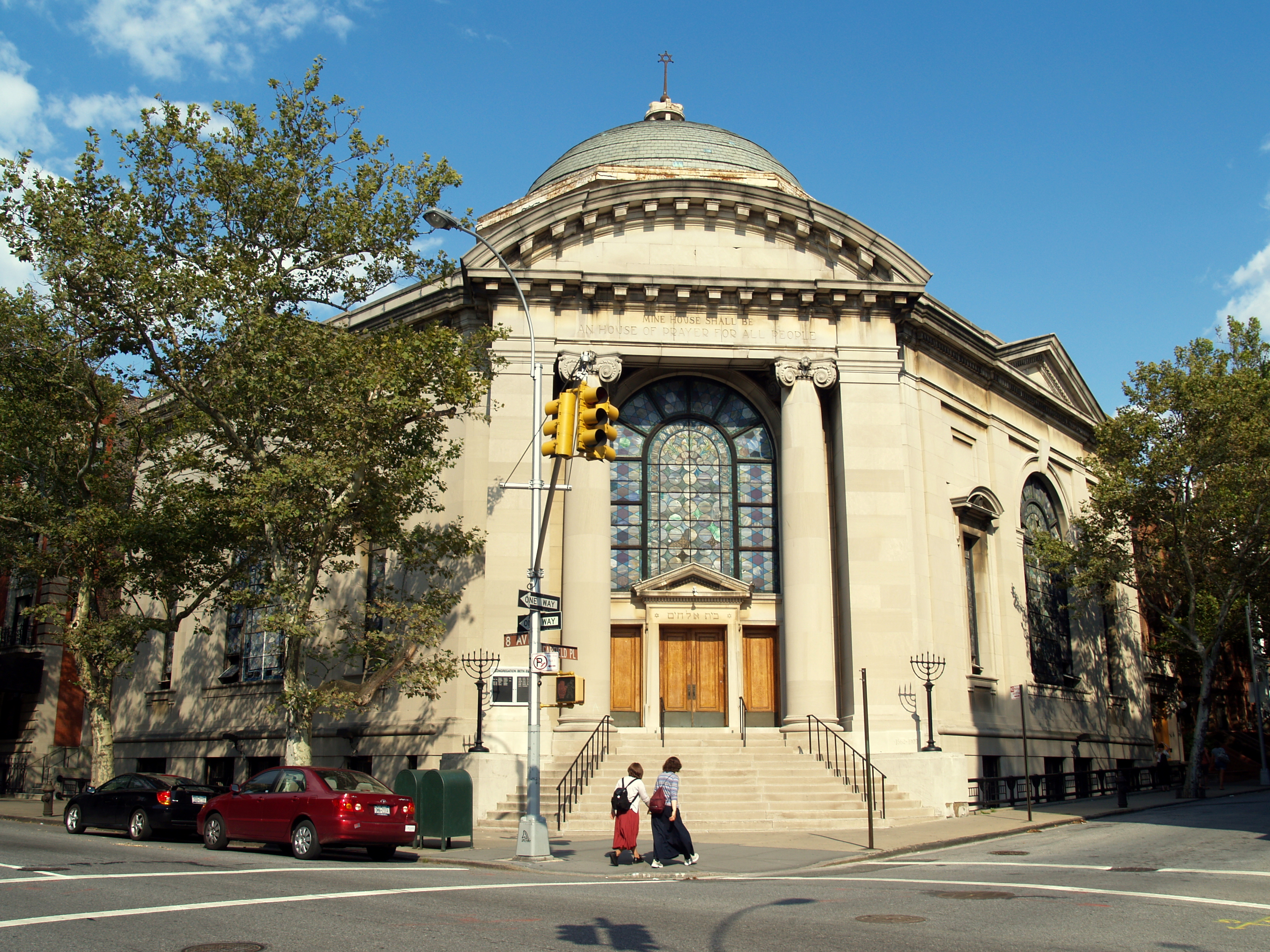 Congregation Beth Elohim in Park Slope, Brooklyn, New York.